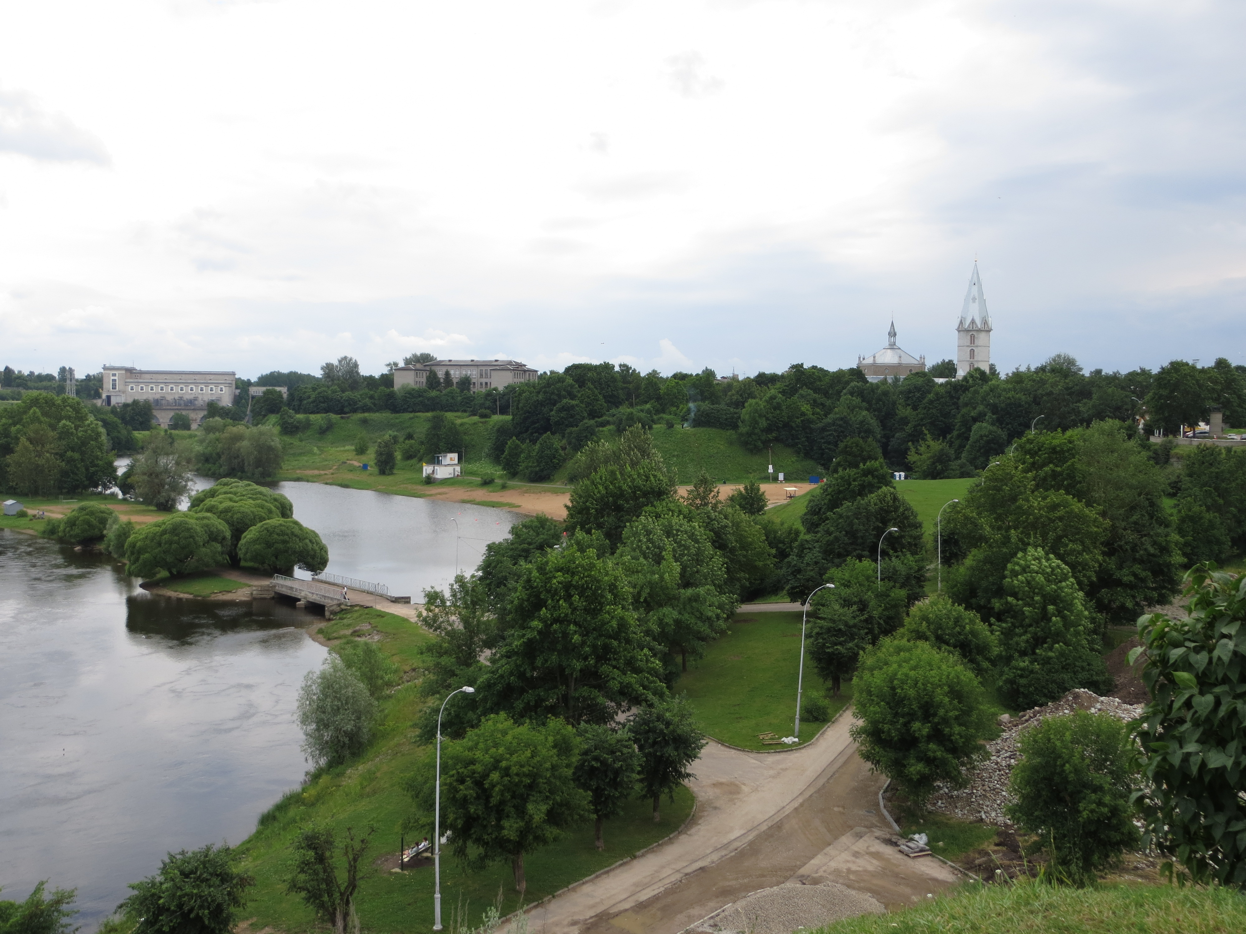 View of Narva and the west banks of Narva River, from Hermann Castle, with the Swedish Lion Monument visible on the right side of the photo.